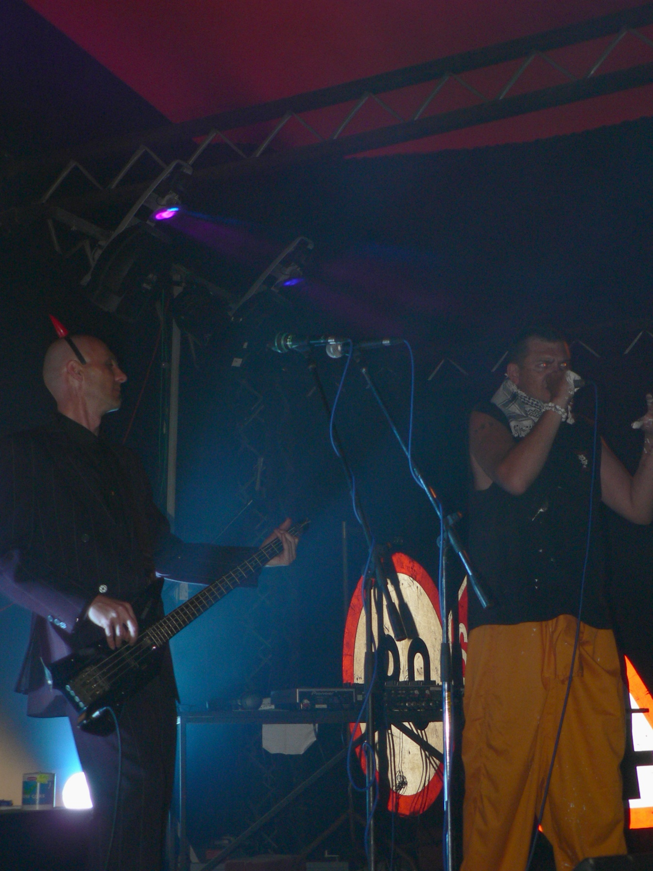 Battery 9 performing live at the Klein Libertas theatre in Stellenbosch